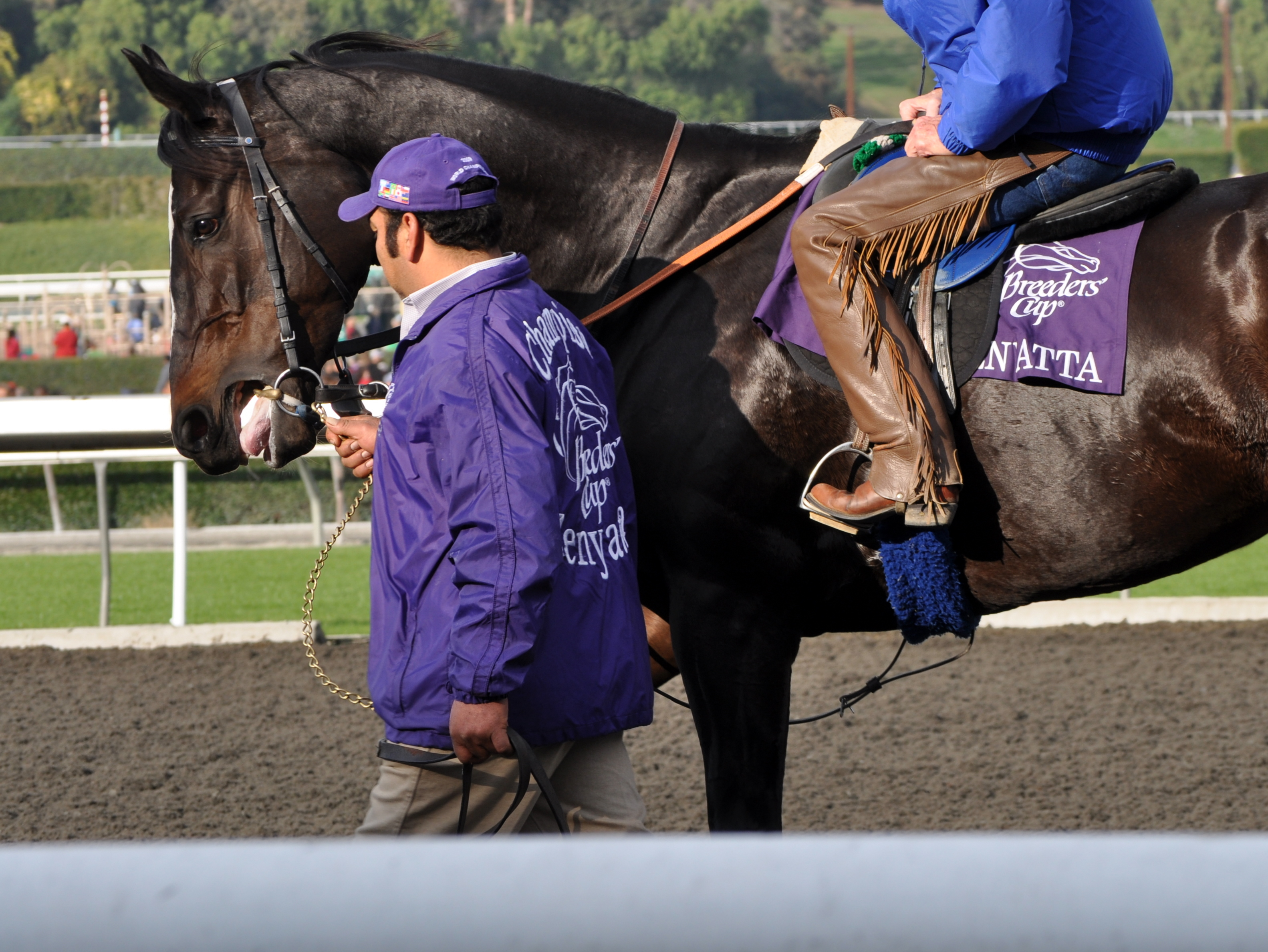 Zenyatta parading at Santa Anita for the last time